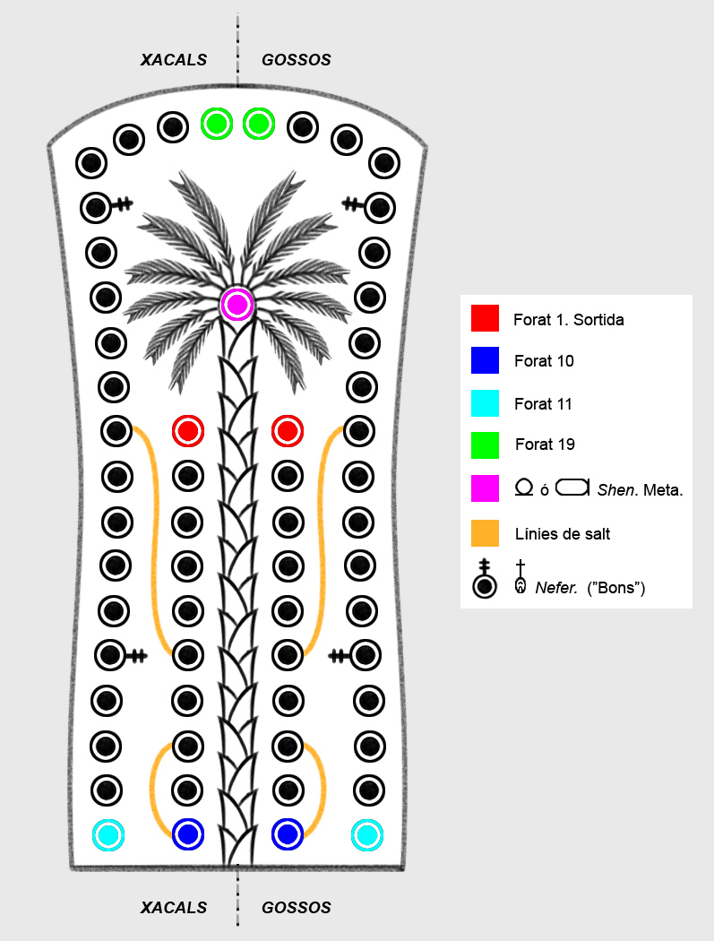 "Hounds and Jackals" game (Ancient Egypt).